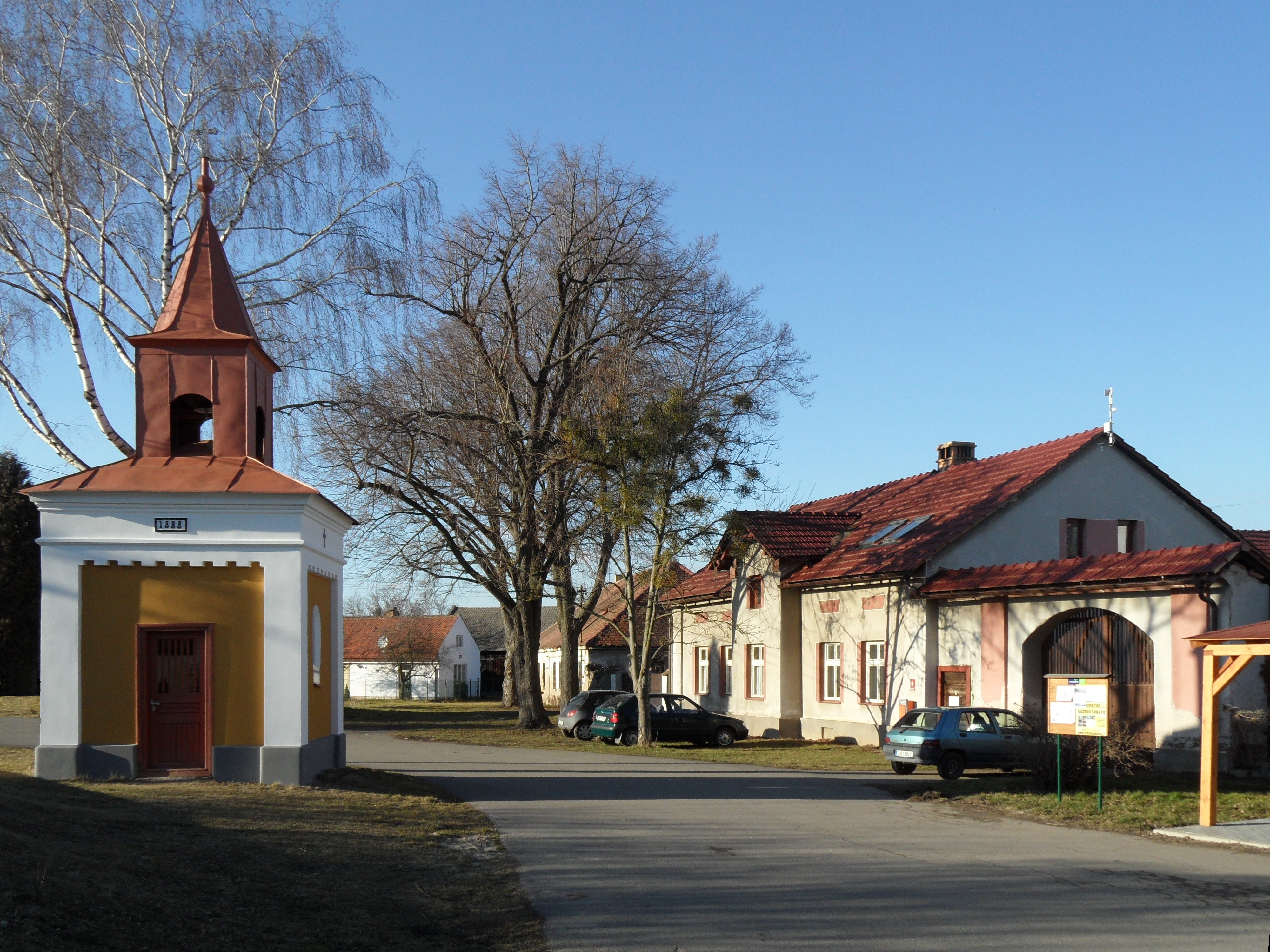 Spytice C. Overview of Village Square from South, Havlíčkův Brod District, the Czech Republic.